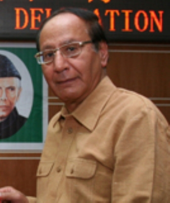 Chaudhry Shujaat Hussain